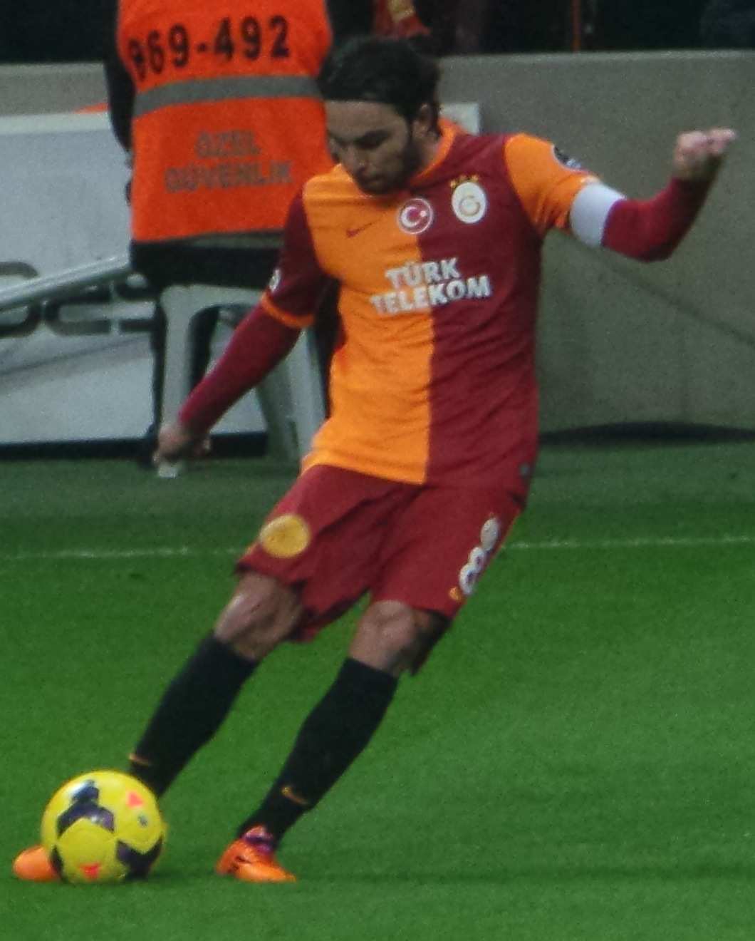 Selçuk İnan freekick kullanırken.